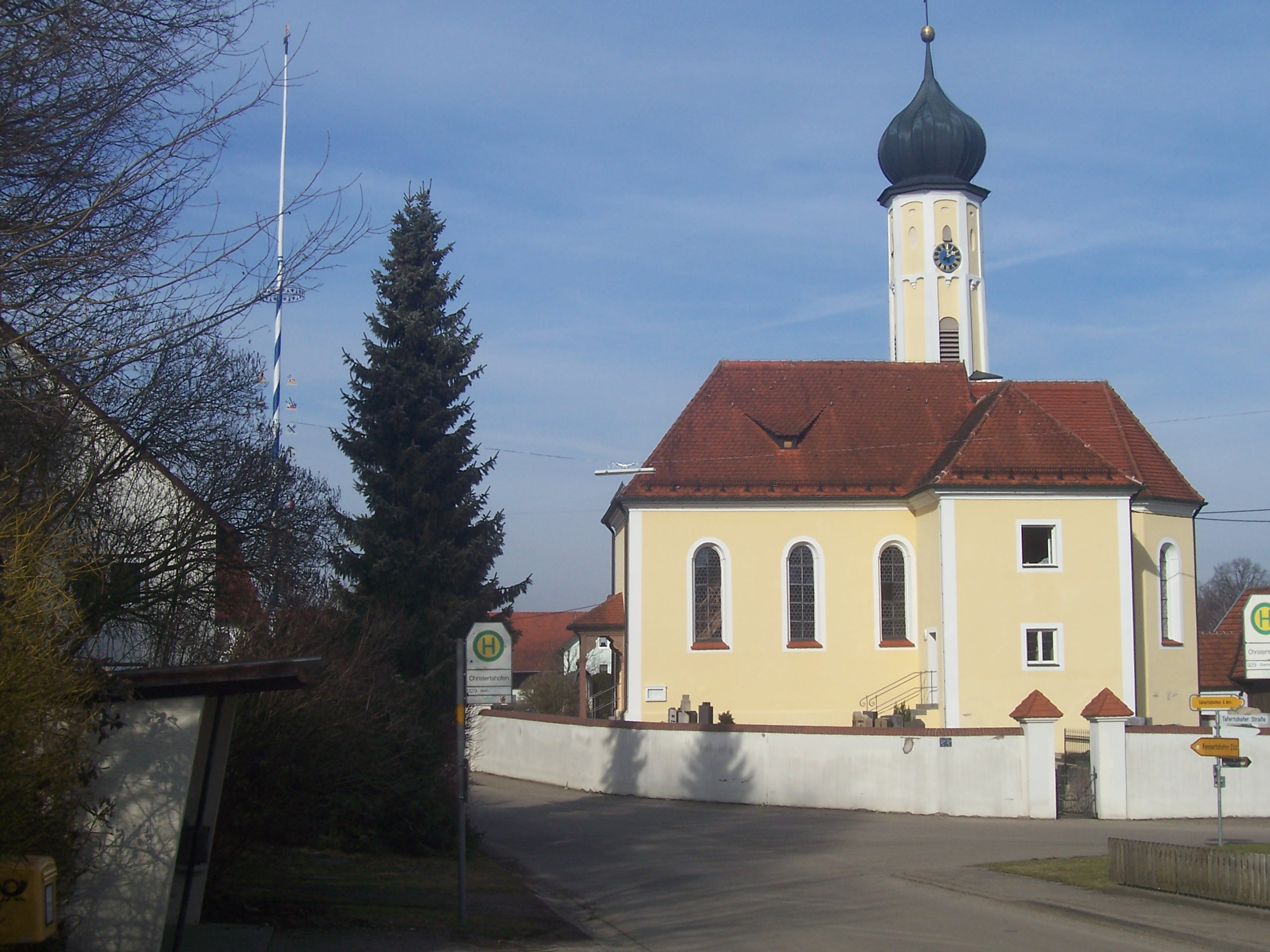 Christertshofen